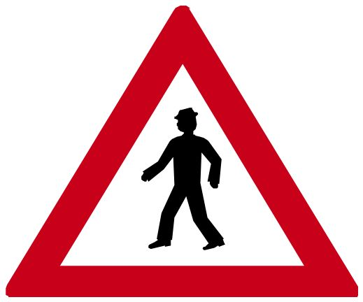 A 12a "Pedestrians". Road sign of the Czech Republic